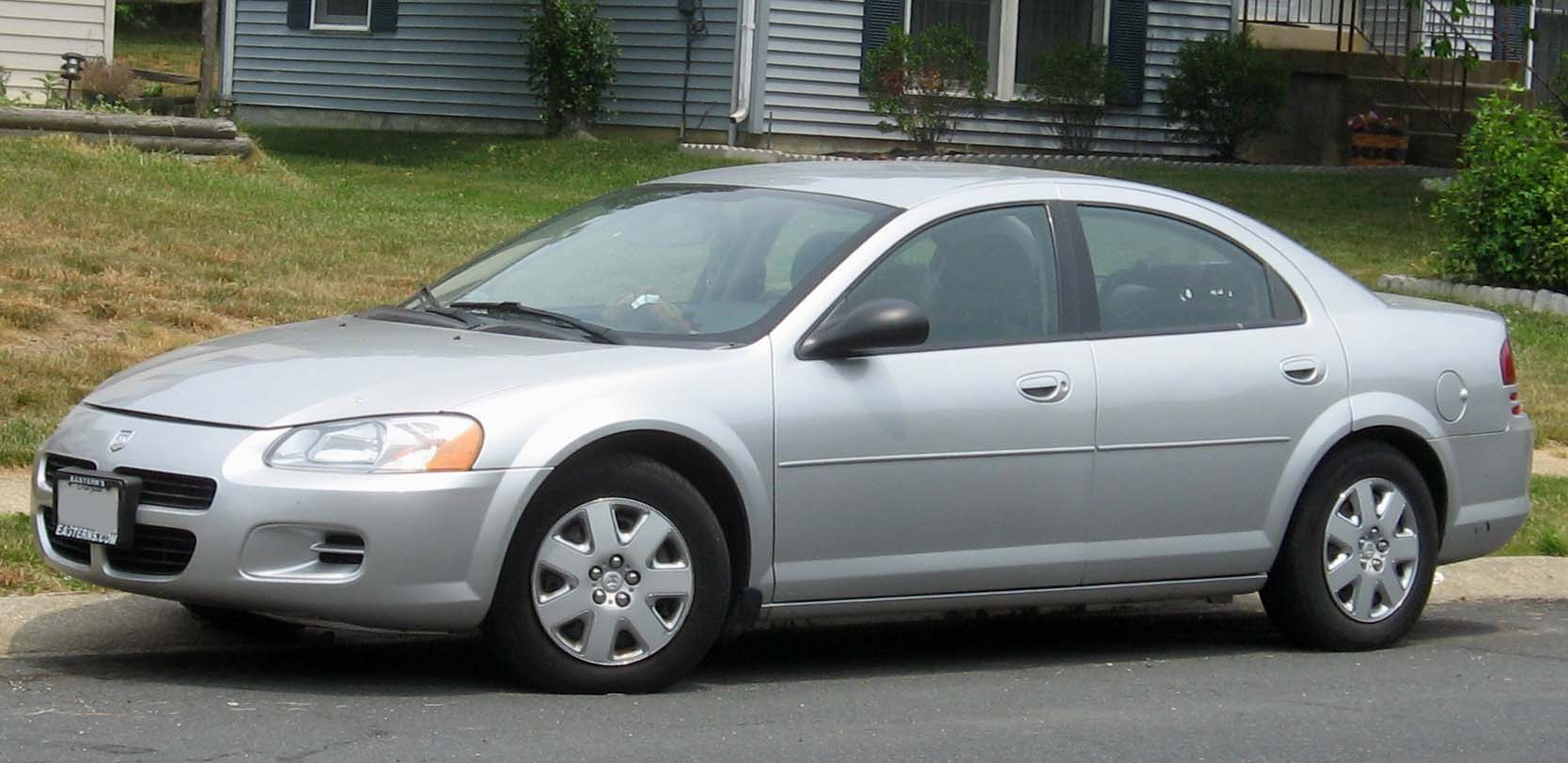 2001-2003 Dodge Stratus photographed in Waldorf, Maryland, USA.